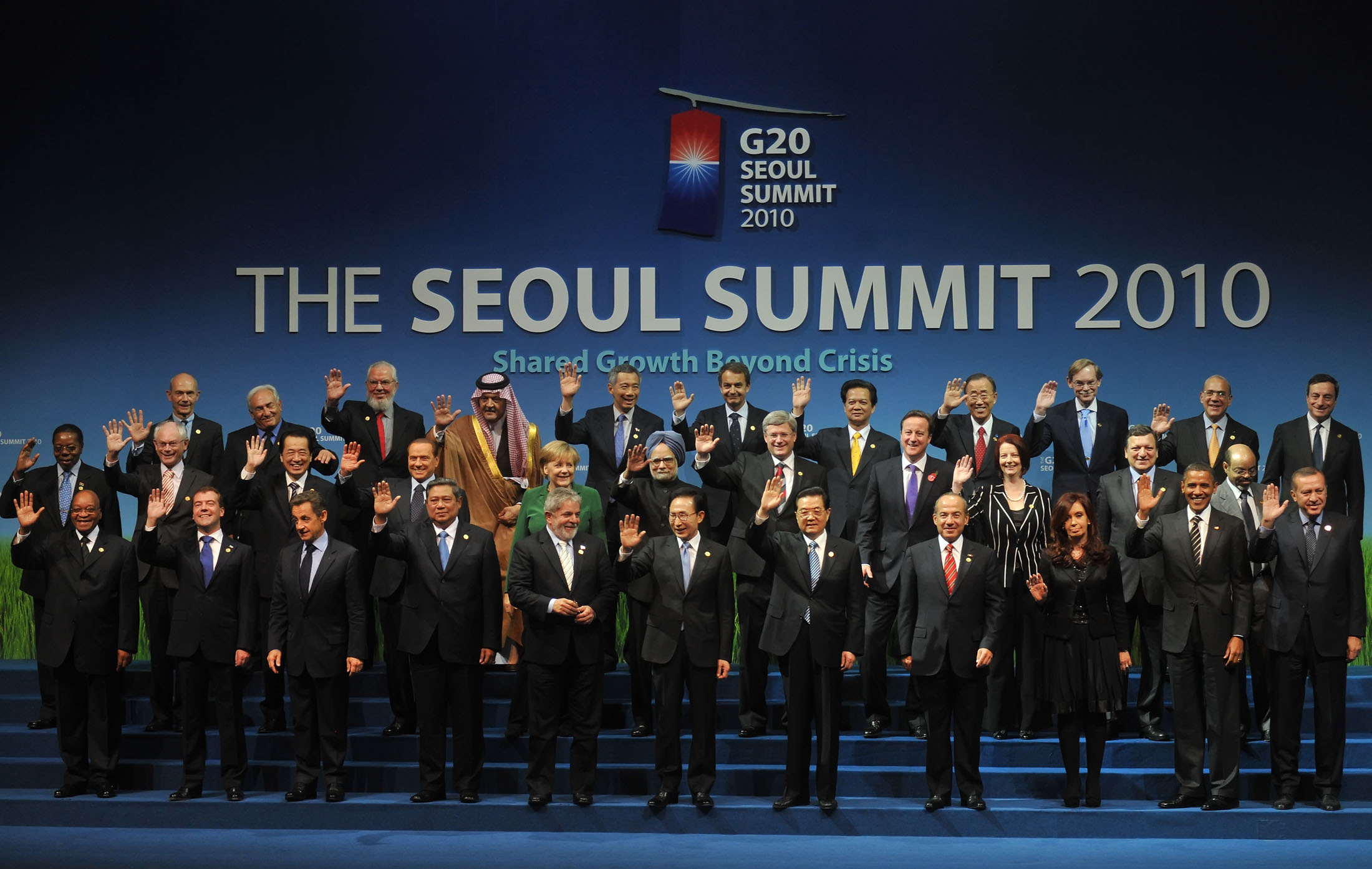 World leaders at the 2010 G-20 Seoul summit Left to right: Front row: Jacob Zuma (South Africa), Dmitry Medvedev (Russia), Nicolas Sarkozy (France), Susilo Bambang Yudhoyono (Indonesia), Luiz Inácio Lula da Silva (Brazil), Lee Myung-bak (South Korea), Hu Jintao (China), Felipe Calderón (Mexico), Cristina Fernandez (Argentina), Barack Obama (USA), Recep Tayyip Erdoğan (Turkey) Middle row: Bingu wa Mutharika (African Union), Herman Van Rompuy (European Council), Naoto Kan (Japan), Silvio Berlusconi (Italy), Angela Merkel (Germany), Manmohan Singh (India), Stephen Harper (Canada), David Cameron (United Kingdom), Julia Gillard (Australia), José Manuel Barroso (European Commission), Meles Zenawi (NEPAD) Back row: Pascal Lamy (World Trade Organization), Dominique Strauss-Kahn (International Monetary Fund), Juan Somavía (International Labour Organization), Saud bin Faisal bin Abdul-Aziz (Saudi Arabia), Lee Hsien Loong (Singapore), José Luis Rodríguez Zapatero (Spain), Nguyen Tan Dung (Vietnam, ASEAN), Ban Ki-moon (United Nations), Robert Zoellick (World Bank), José Ángel Gurría (OECD), Mario Draghi (Financial Stability Forum)